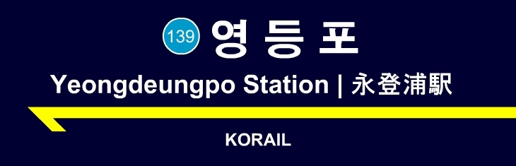 Yeongdeungpo Station